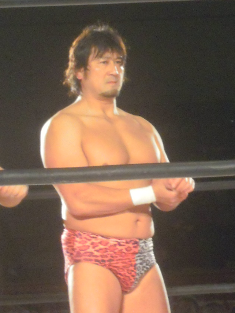 Japanese professional wrestler, Takao Ōmori. Dec 9 2012, BJW Yokohama Cultural Gymnasium.